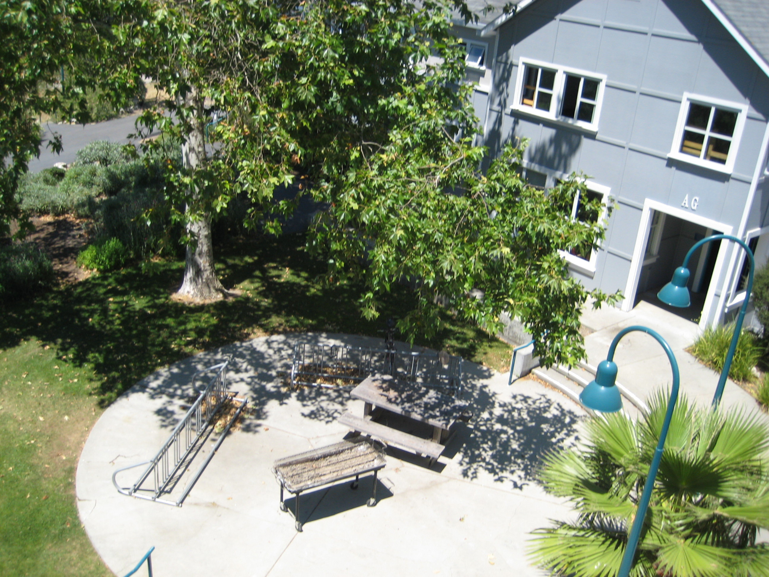 A quad in a college dormitory residential area